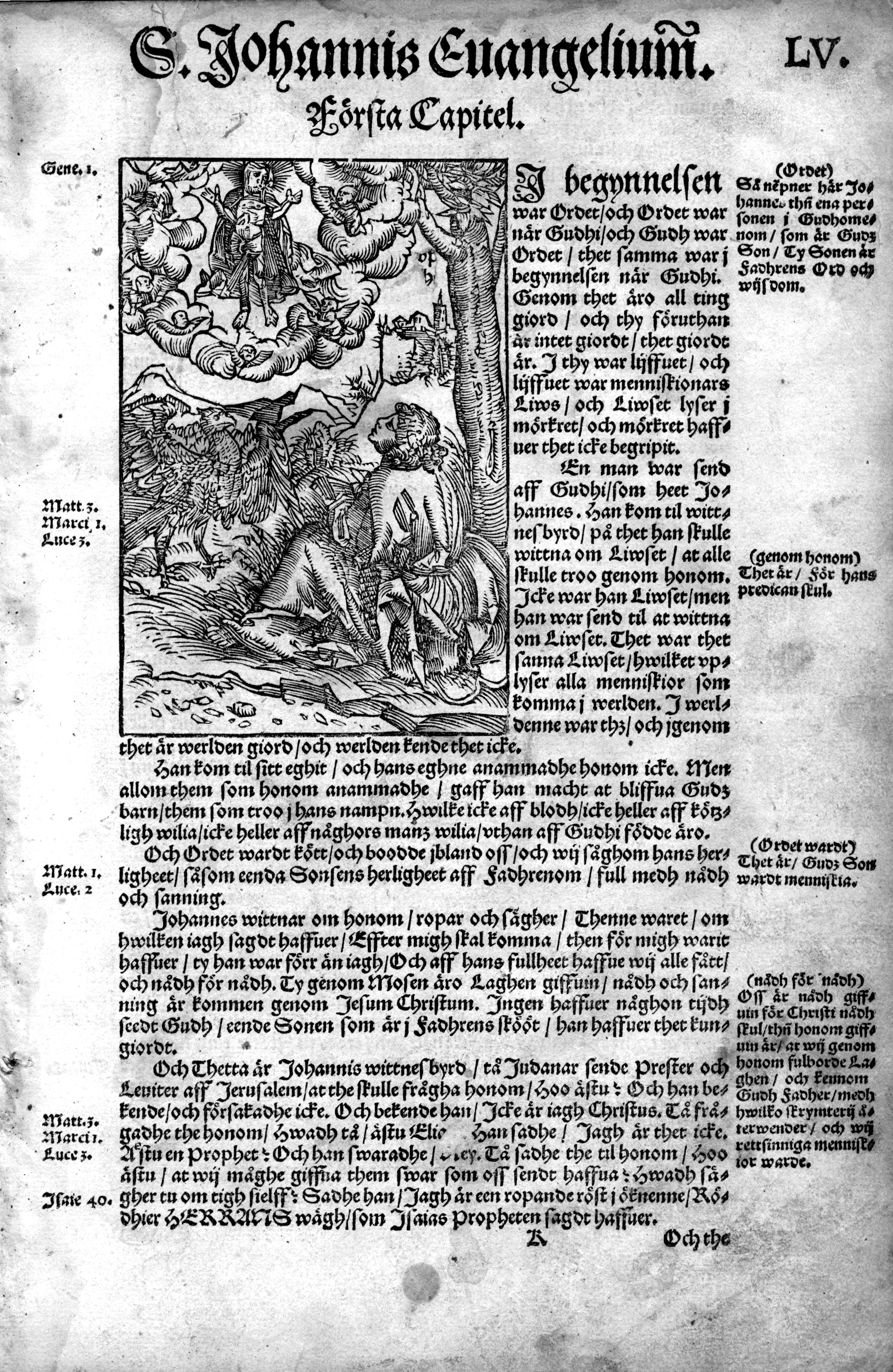 Gustav Vasa Bible, Gospel of John